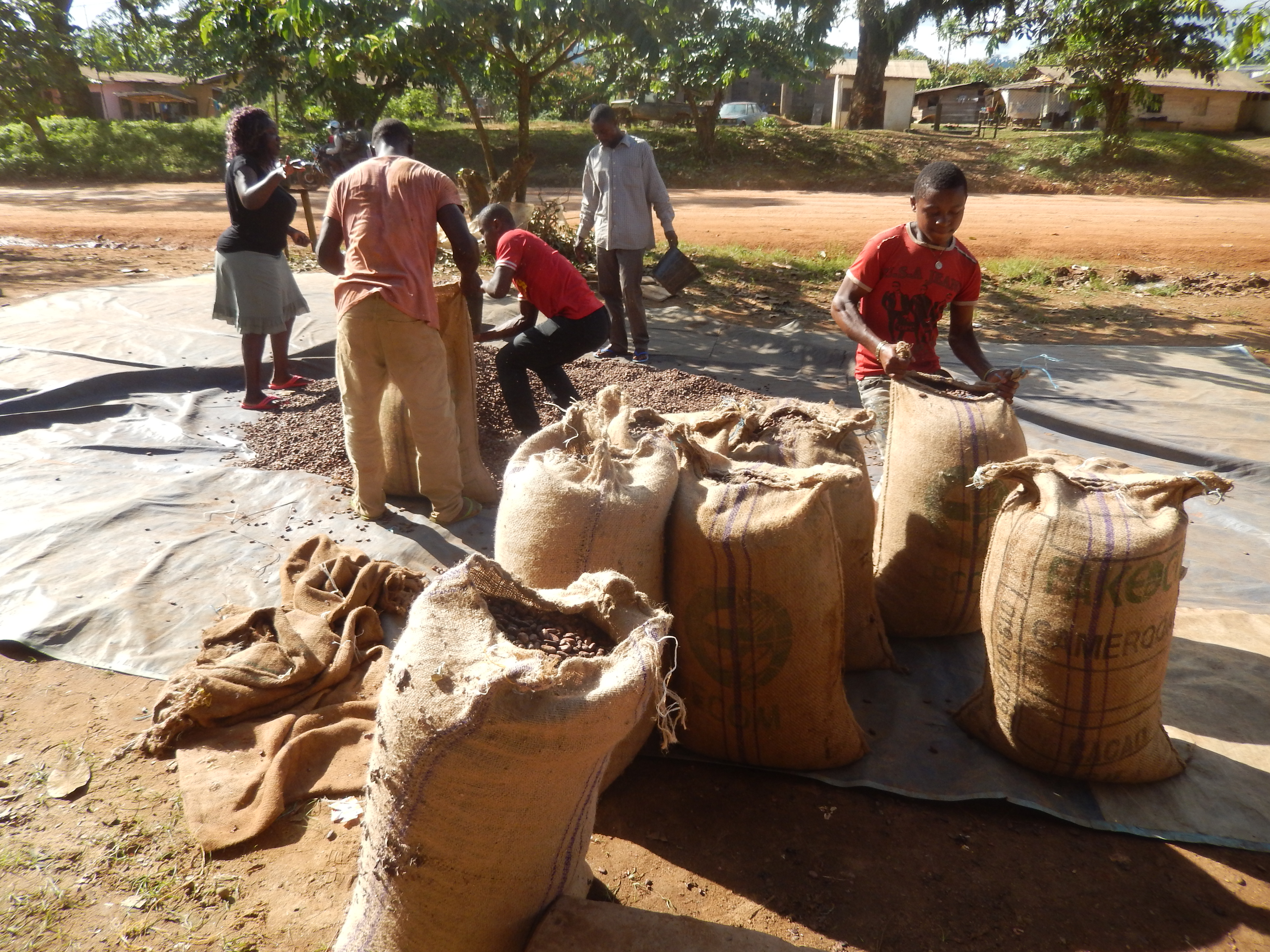 harvest time in Cameroon. The cocoa has to be put in bags so the beans can be transported to the harbour.